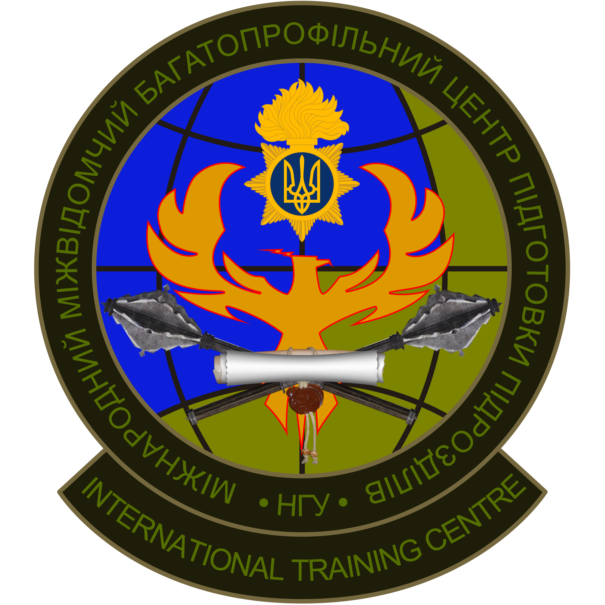 International Training Centre NGU